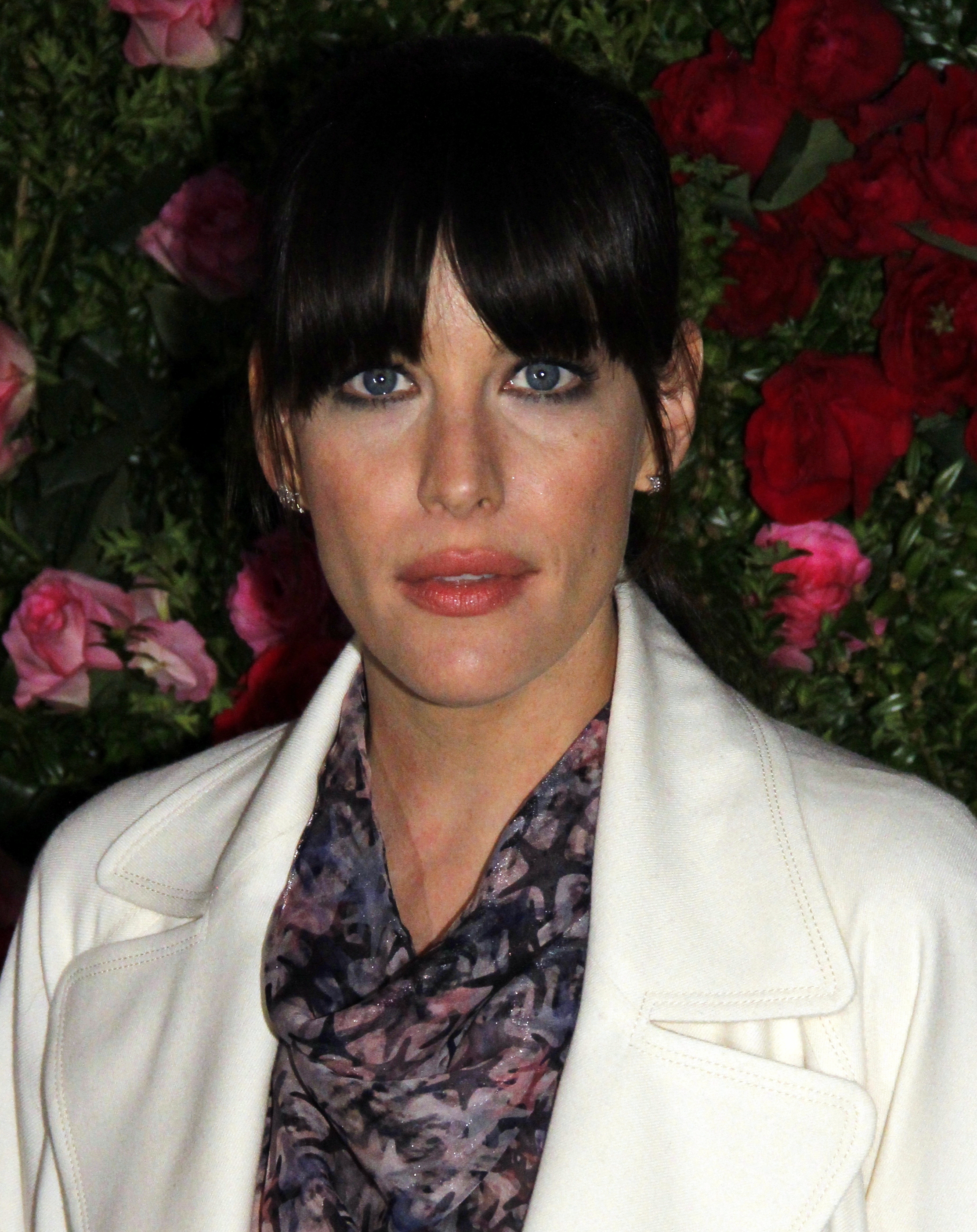 Actress Liv Tyler at the 7th Annual Chanel Tribeca Film Festival Artists Dinner, in April 2012.